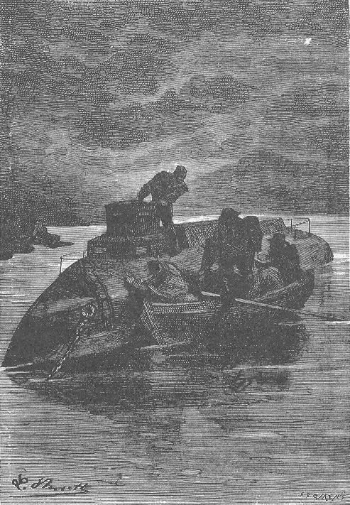 An illustration from Jules Verne's novel "Mathias Sandorf" (1885) drawn by Léon Benett.